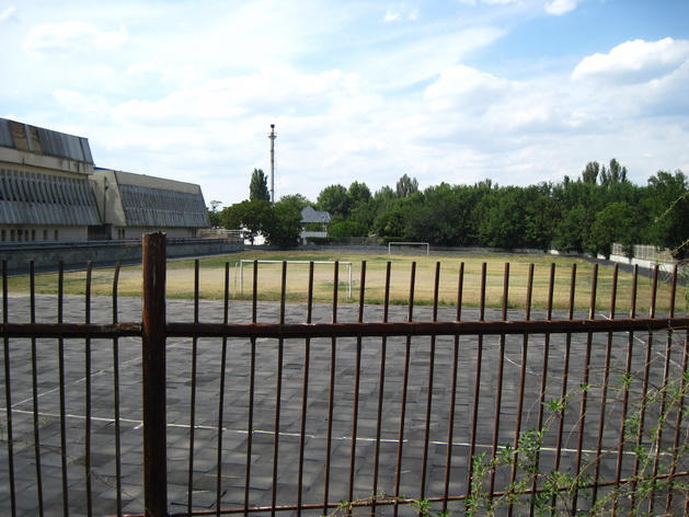 CSMU Stadium in Simferopol, Crimea, Ukraine